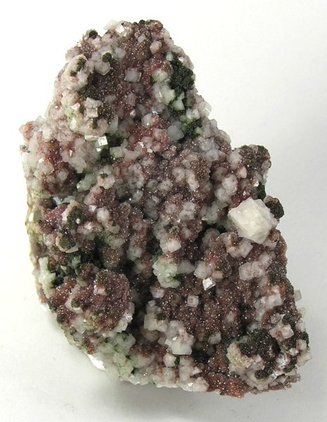 Calcite, Dolomite, Mottramite Locality: Tsumeb Mine (Tsumcorp Mine), Tsumeb, Otjikoto (Oshikoto) Region, Namibia (Locality at ) Size: 6.9 x 6.2 x 3.9 cm. Another specimen from the renowned Tsumeb Mine, snowy rhombs of calcite on sparkly dolomite, with small lustrous balls of deep moss-green mottramite here and there.